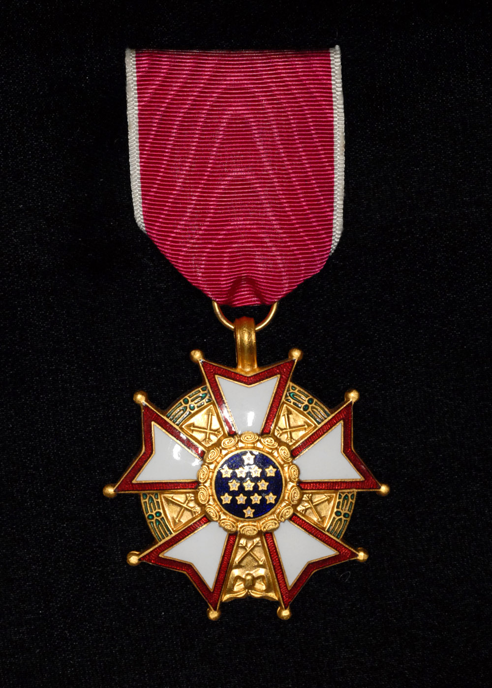 Legion of Merit, Legionnaire order